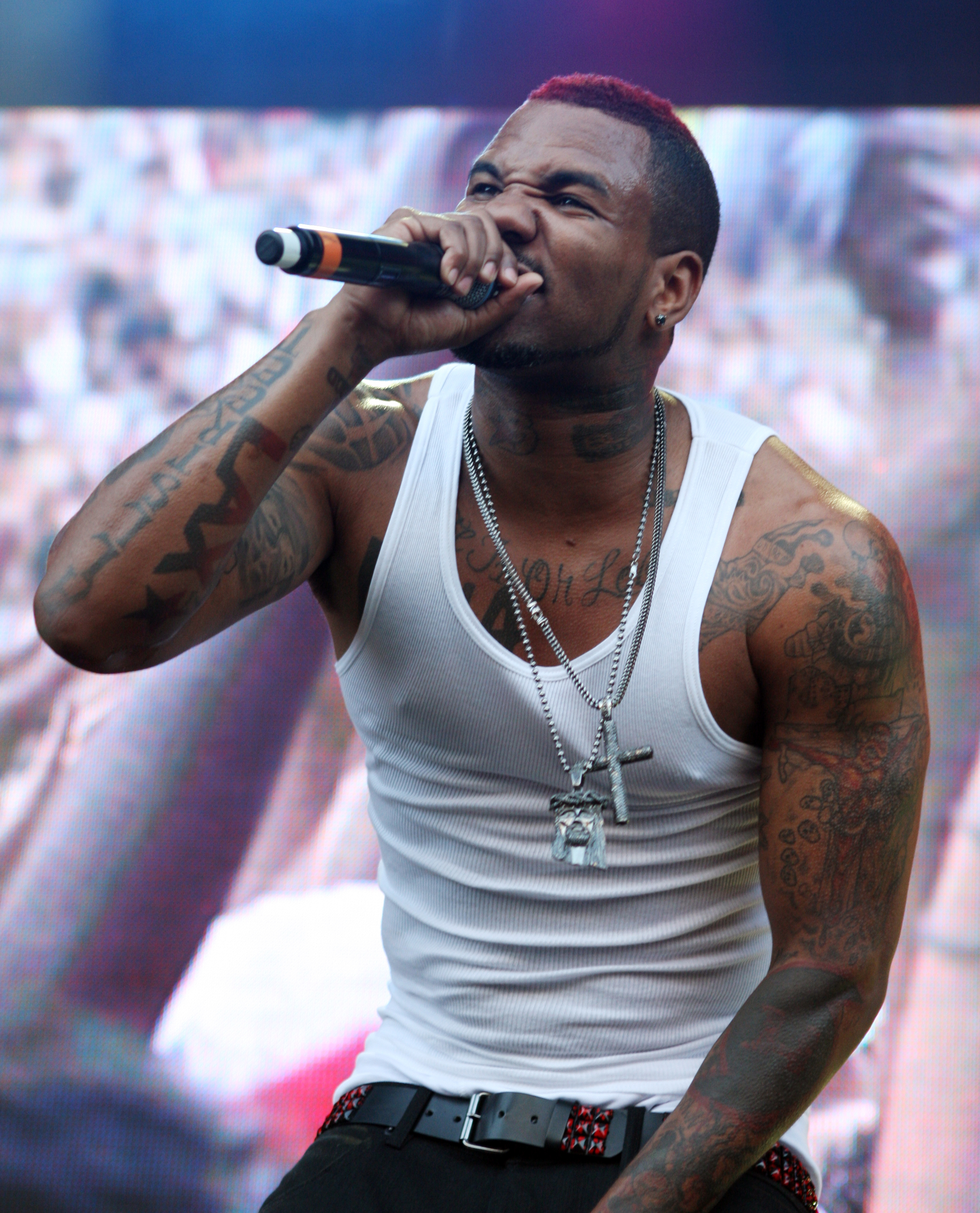 The Game performing at Supafest in Australia in April 2011.